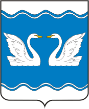 Proletarskoe (Krasnodar krai), coat of arms